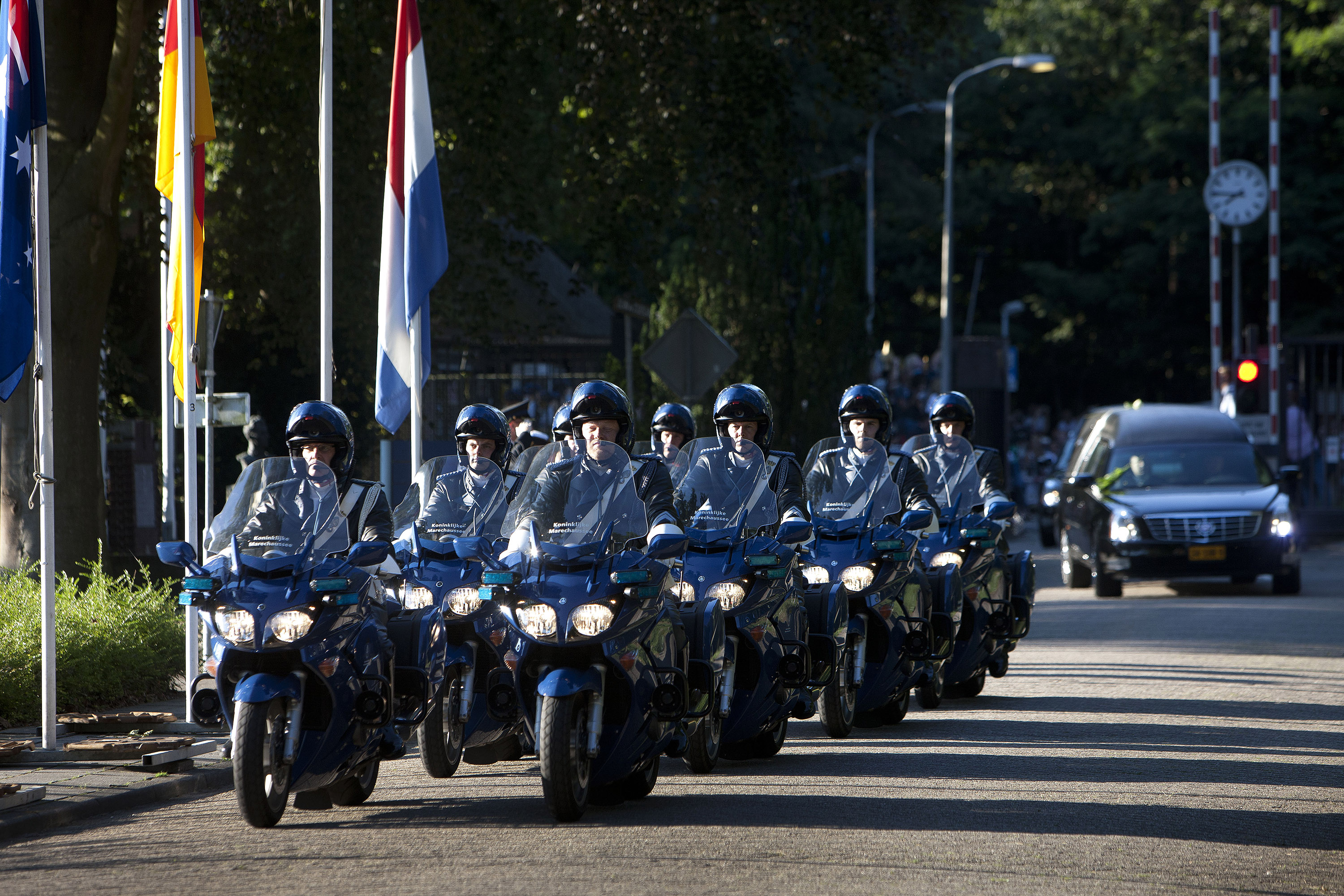 A motorcycle escort of Royal Military Constabulary will accompany the procession together with the remains of MH17.